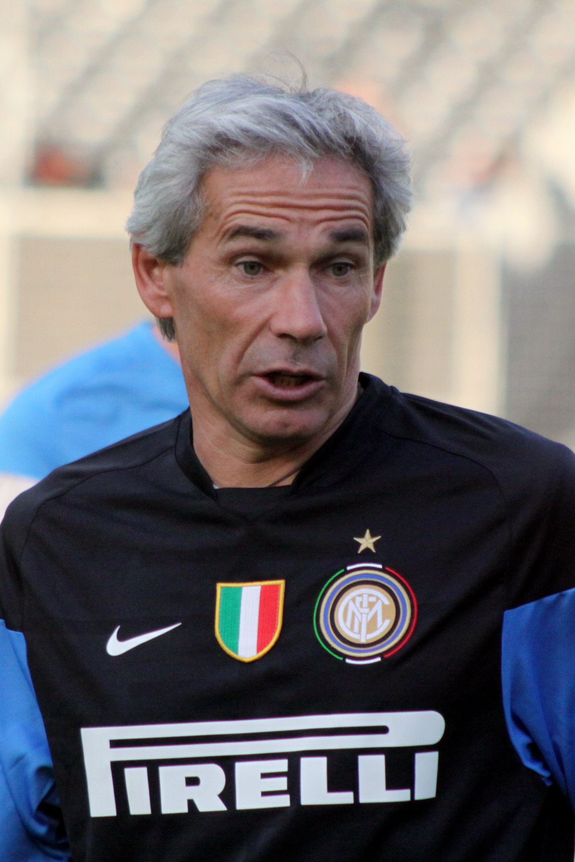 Giuseppe Baresi - F.C. Internazionale Milano